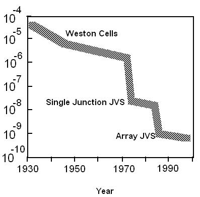 Agreement between national voltage standards by year